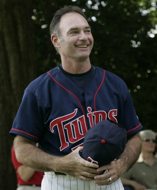 Former Minnesota Twins, Milwaukee Brewers and Toronto Blue Jays baseball star Paul Molitor is introduced to the crowd Sunday, July 24, 2005, at a Tee Ball game on the South Lawn of the White House, where he participated as first base coach.